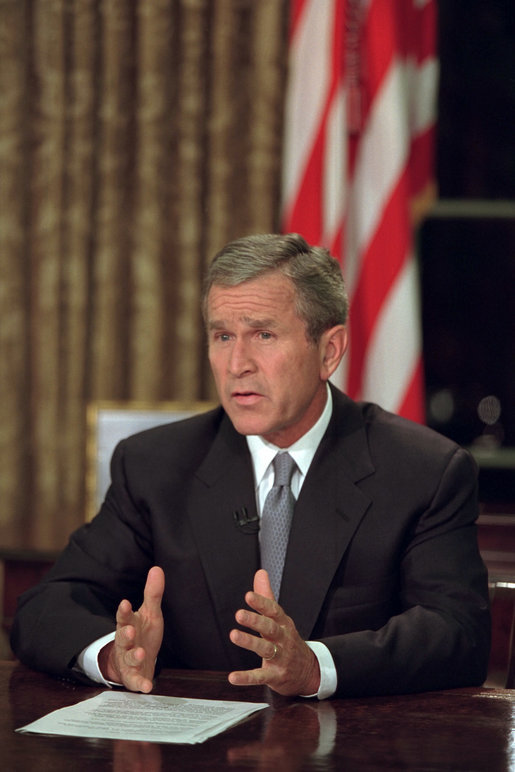 President George W. Bush addresses the nation from the Oval Office the evening of Sept. 11, 2001.